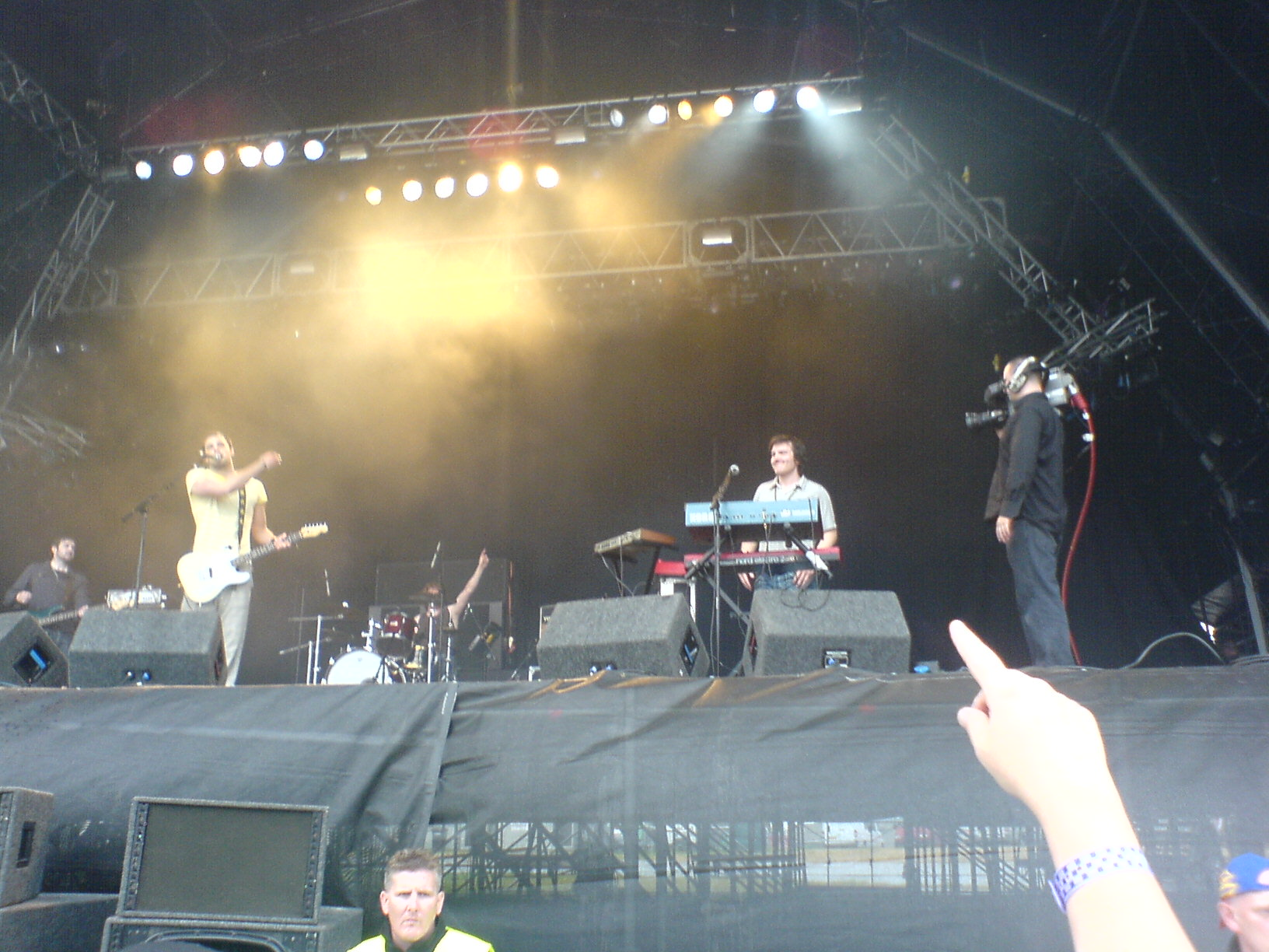 Photo taken by me of The Blizzards at the 2006 Oxegen concert in Ireland